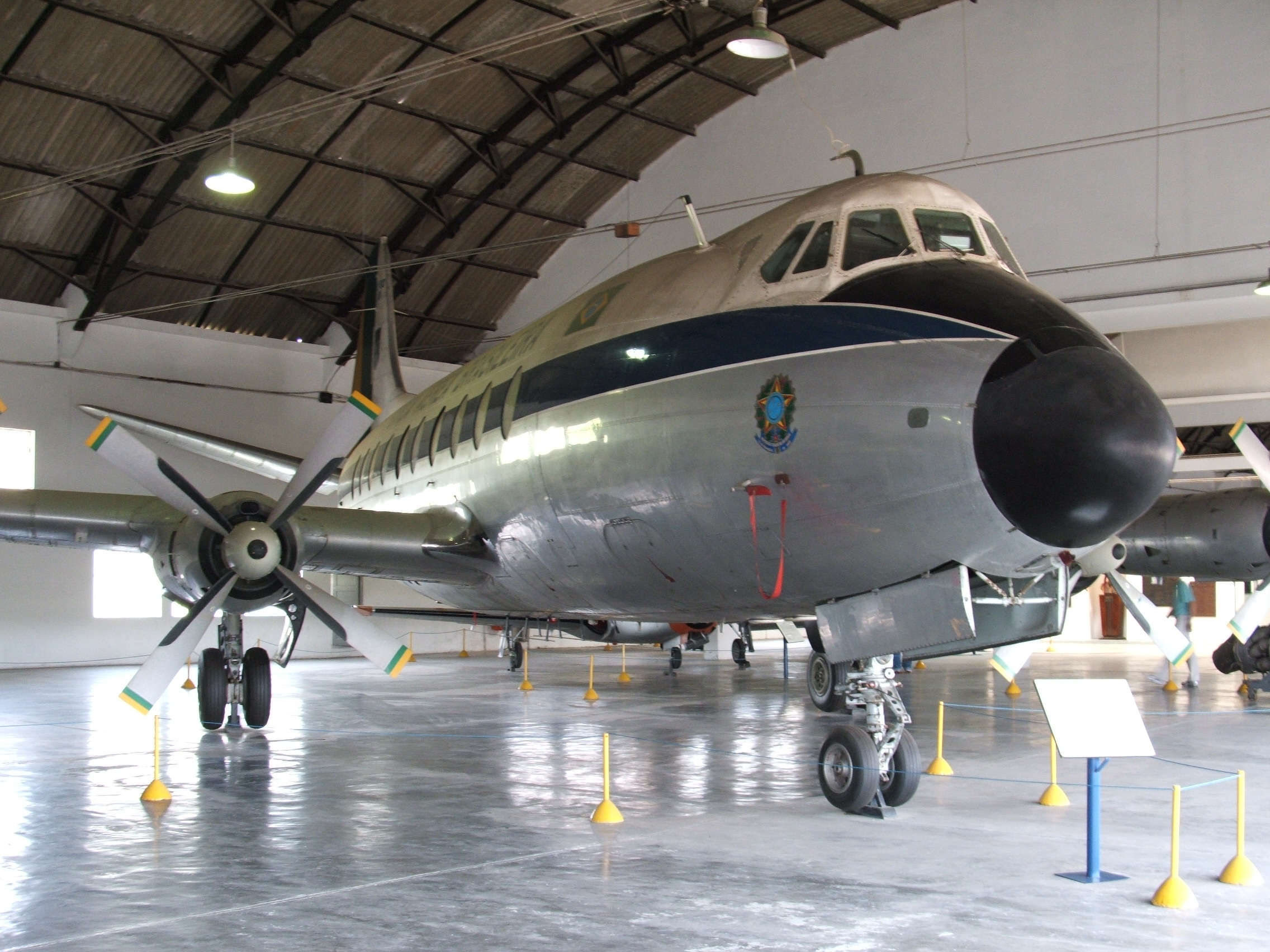 Brazilian Air Force Vickers Viscount used the by brazilian president, now at the Museu Aeroespacial in Rio.